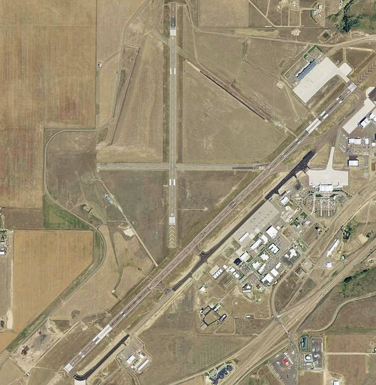 USGS digital orthophoto of Great Falls International Airport in Montana